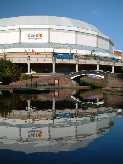 The National Indoor Arena, Birmingham